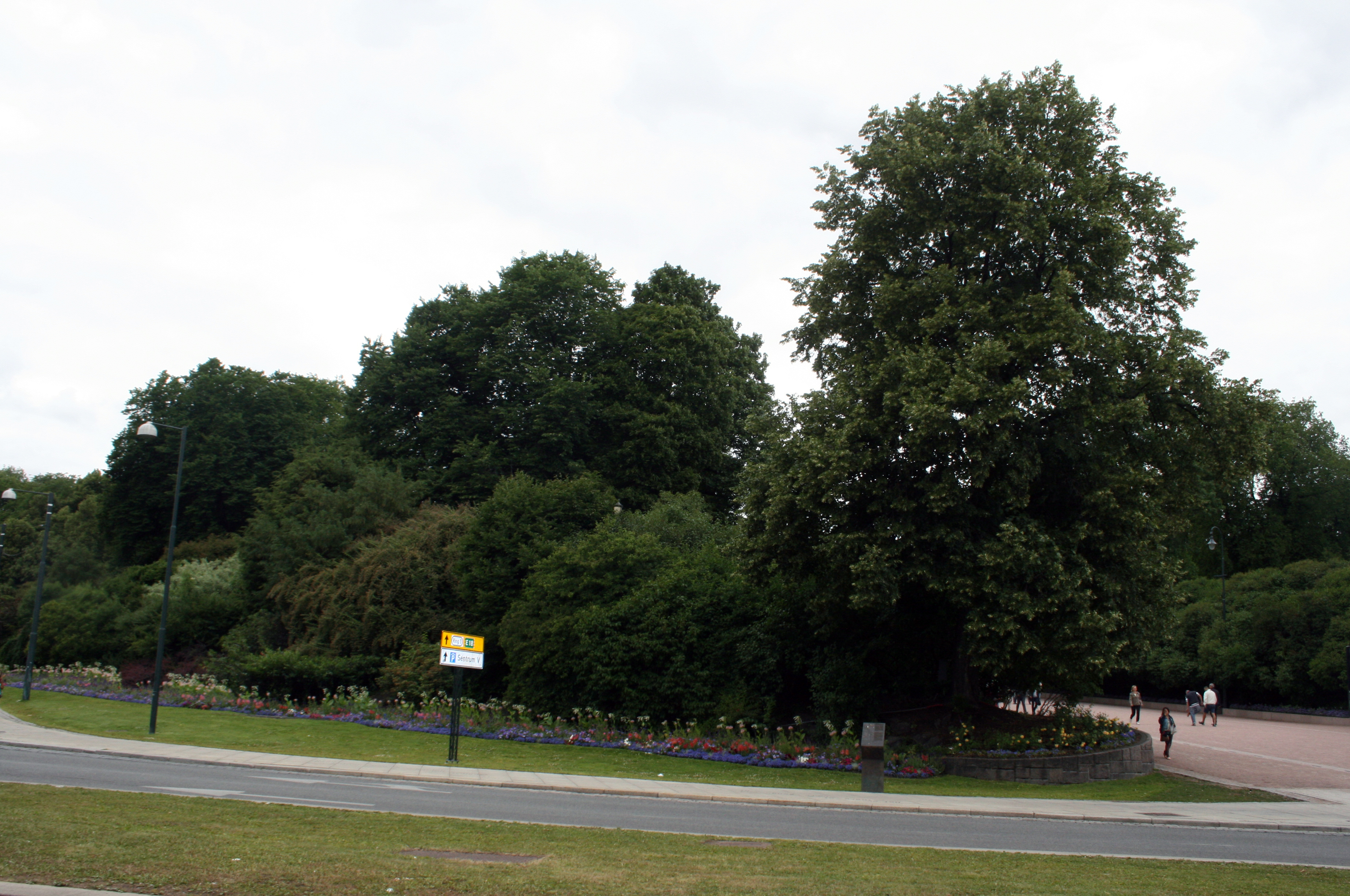 The hill Abelhaugen in the Palace Park in Oslo, Norway. Henrik Ibsen street in the foreground.